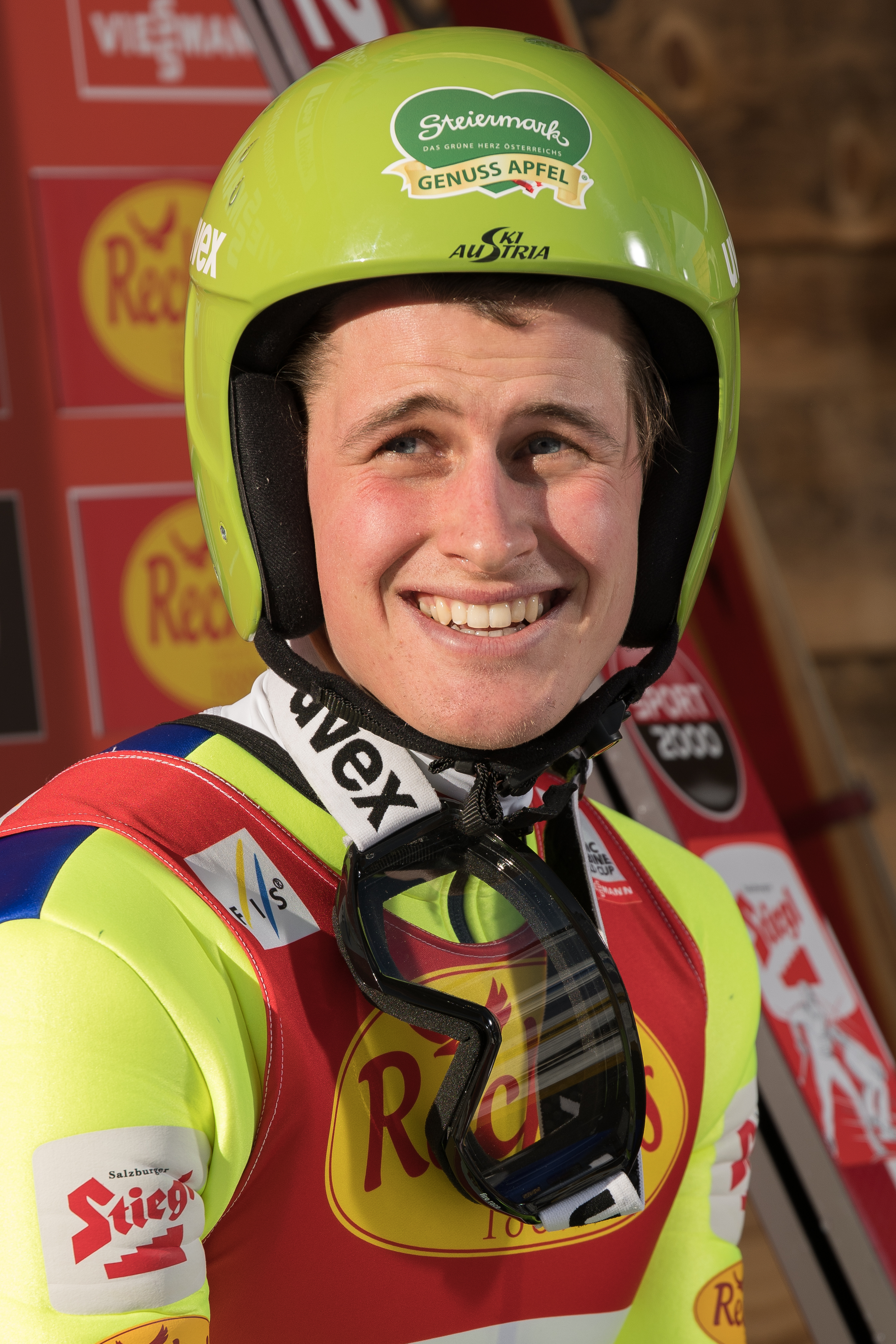 Seefeld-Triple 2018, first day January 26th. Picture shows Paul Gerstgraser